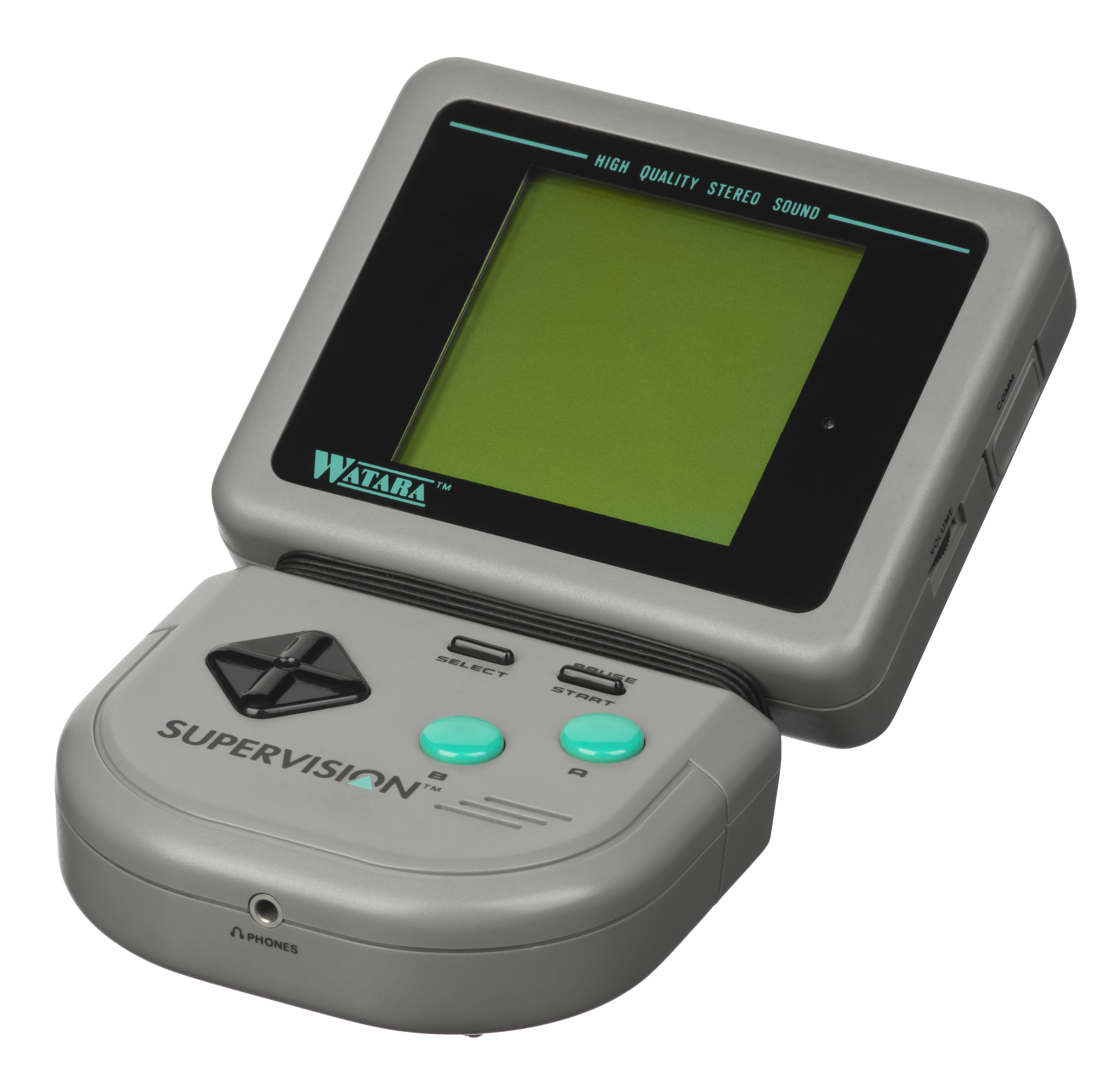 The Supervision, a handheld gaming console manufactured by Taiwanese gaming company Watara and distributed in the US by Goldnation. Released in the US in 1992, it was a low-cost competitor to the Nintendo Game Boy, from which it heavily borrowed its design. The Supervision's advertising focused on its large 160x160 pixel, 4-color display that could tilt. The handheld came packaged with 4 AAs, earbud headphones and the game Crystball, a Breakout clone, for $49.95. The Supervision had a small library of games made primarily by Taiwan and Hong Kong developers, lacking support or interest from third-party developers. The simple and unremarkable games that were released for it were sold from $8.95 to $14.95, much cheaper than Game Boy games. This budget system failed to make a presence in American or international markets and shortly faded away.